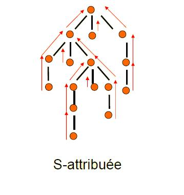 Ordre d'évaluation